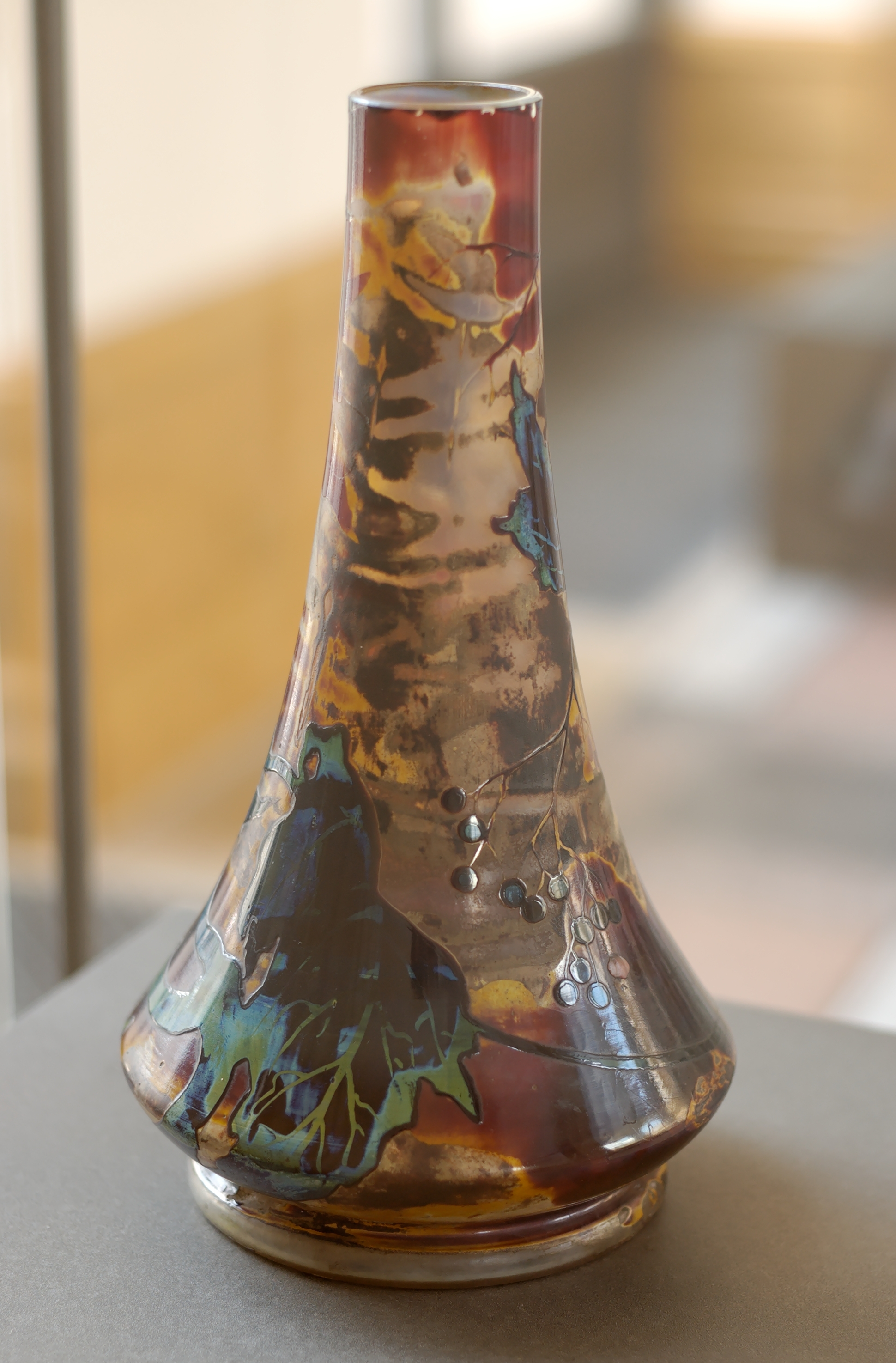 Les Baies (Berries), vase. Double glass, devitrified on surface, etched with hydrofluoric acid and decorated with coloured enamels, ca. 1900.